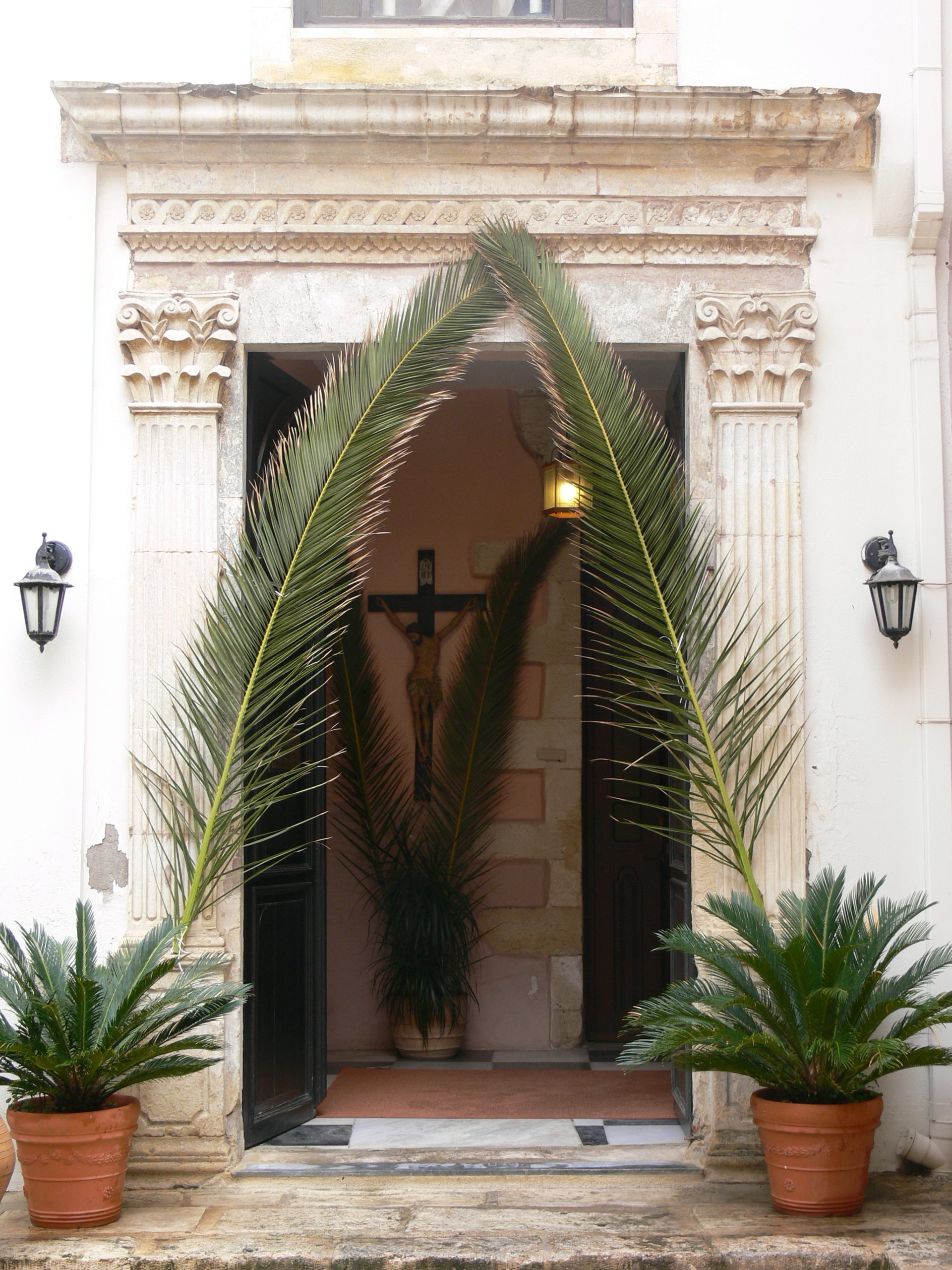 Catholic church of Chania ( Crete ). Church portal with palm fronds as Easter decoration.